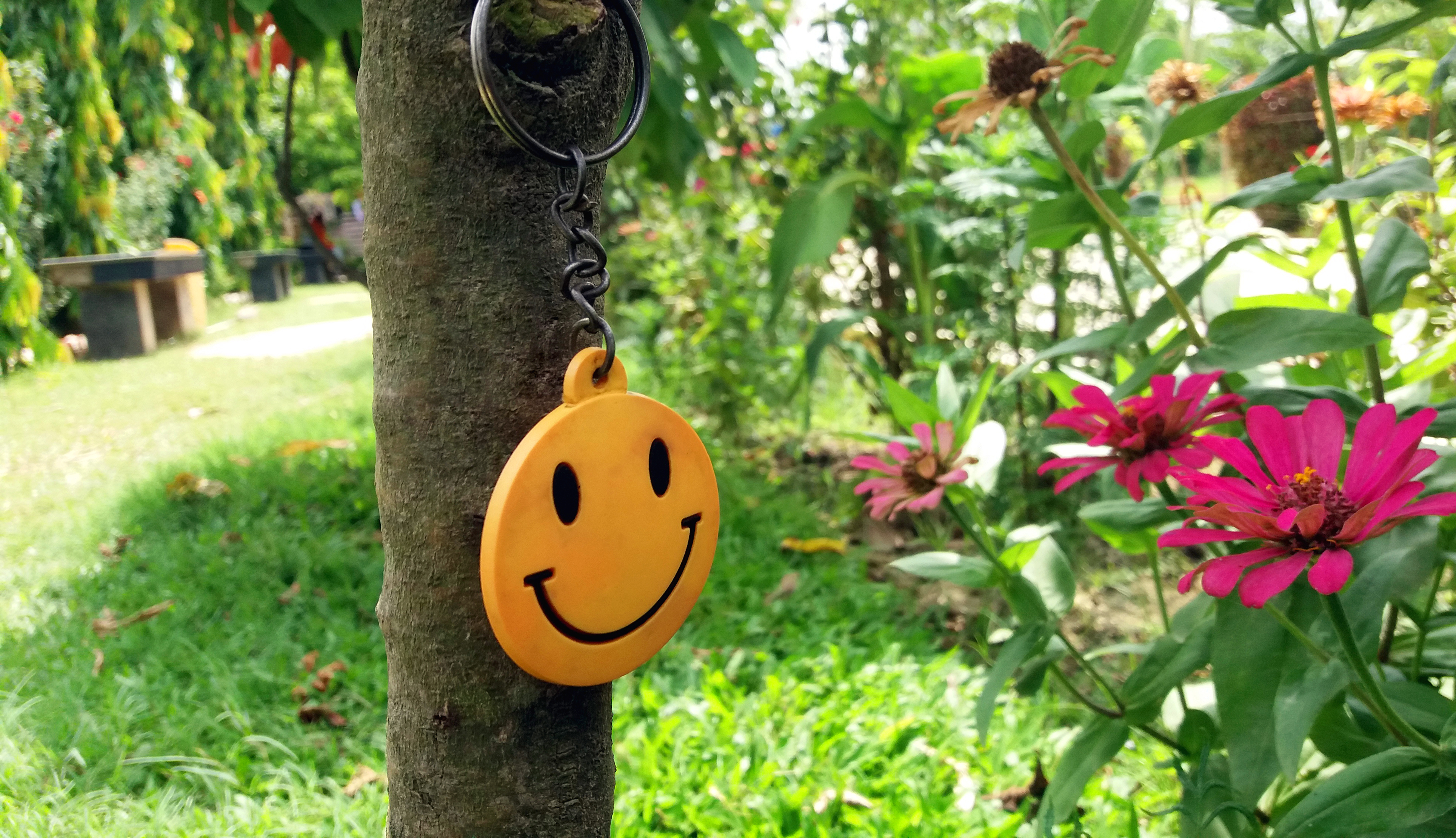 Smiley key ring is hanging on the tree in Janakpur, Nepal